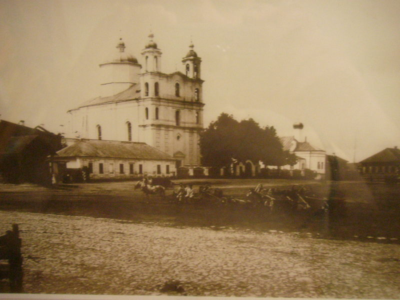 Catholic Church in Čavusy